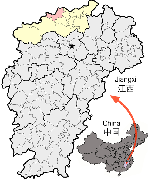 Map showing location of Ruichang, Jiujiang in Jiangxi Province China